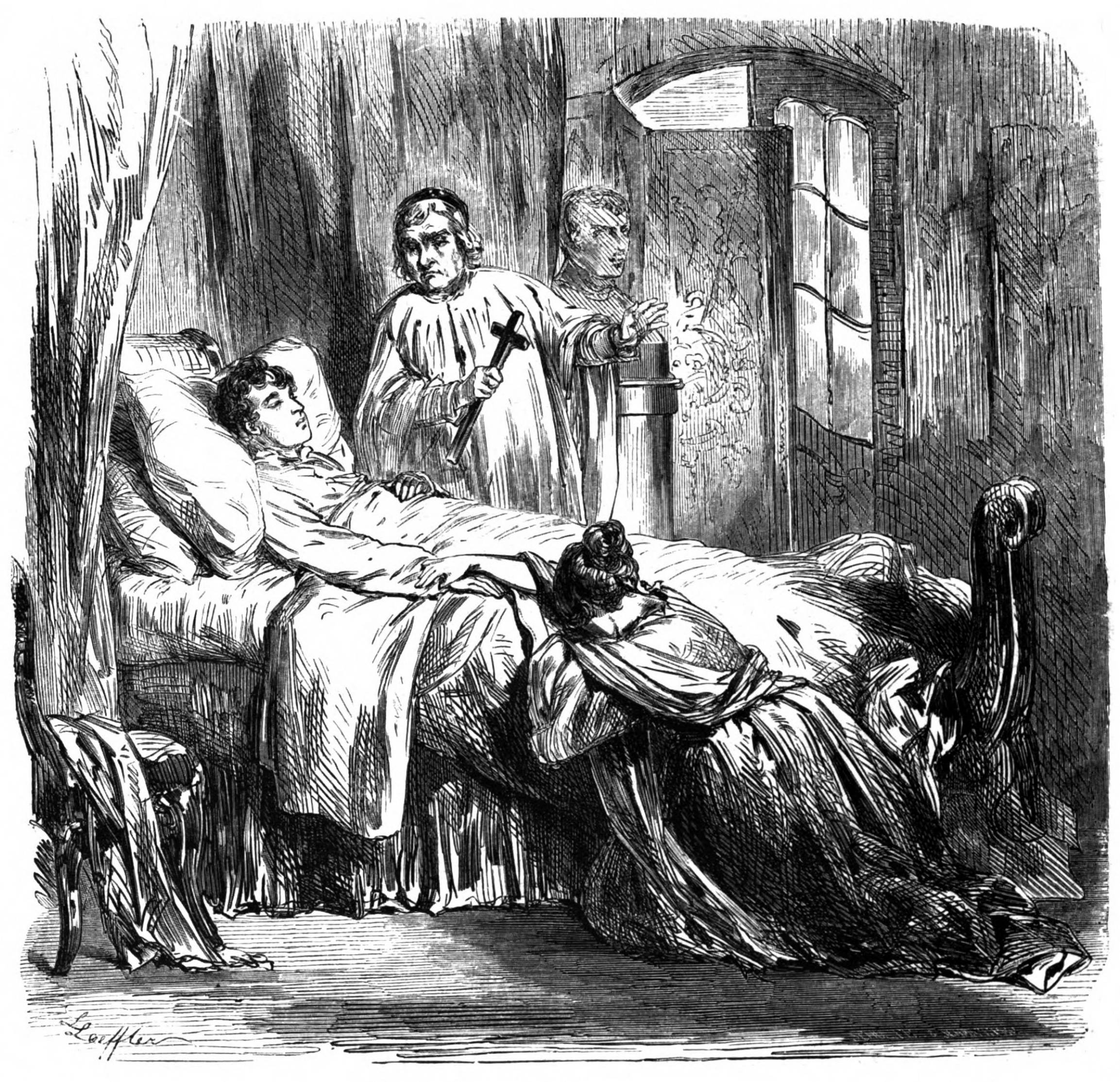 caption: "Die letzten Augenblicke des Herzogs von Reichstadt."